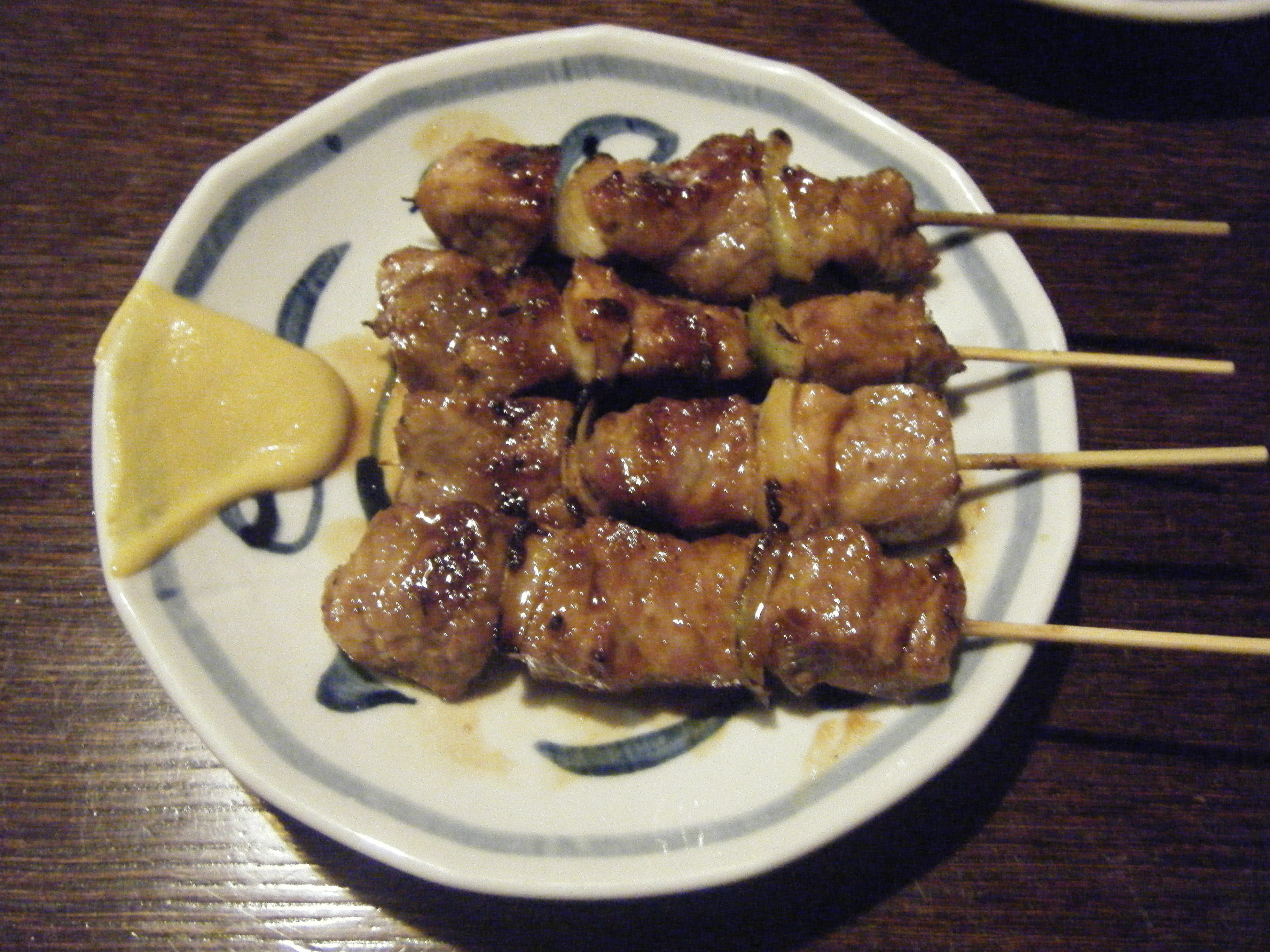 The most popular food of Muroran is Yakitori, skewered grilled pieces of chicken or pork.